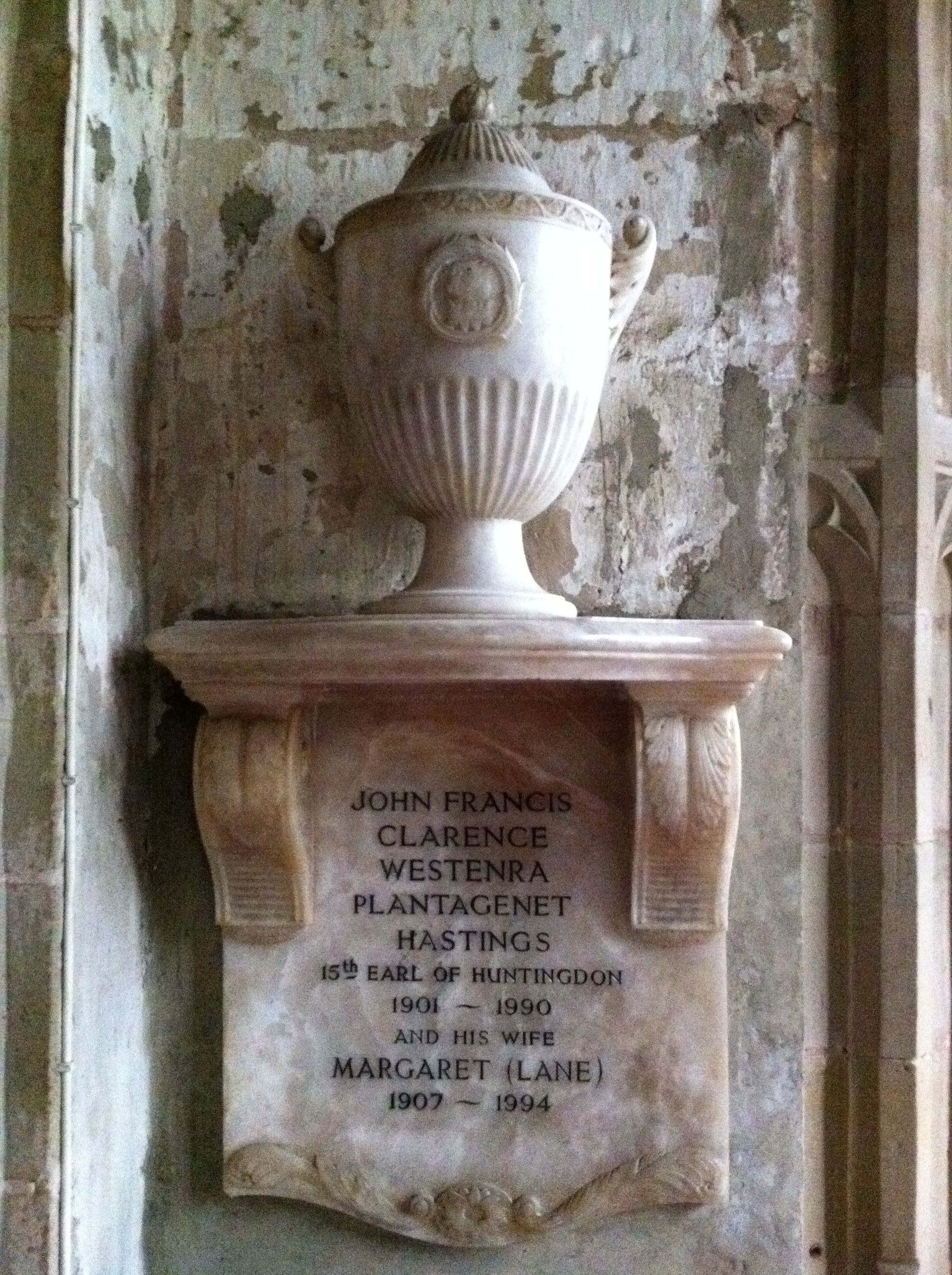 Memorial to John Francis Clarence Westenra Plantagenet Hastings, 16th Earl of Huntingdon, in St Helen's Church, Ashby-de-la-Zouch. He is depicted as the 15th Earl; the shift in numbers probably occurred due to Theophilus Henry Hastings, de jure 11th Earl of Huntingdon (1728–1804), never taking any steps to prove his right to the Earldom (see Earls of Huntingdon, 7th creation and Hans Francis Hastings, 12th Earl of Huntingdon) The text on the memorial reads: John Francis Clarence Westenra Plantagenet Hastings 15th Earl of Huntingdon 1901 ~ 1990 And his wife Margaret (Lane) 1907 ~ 1994